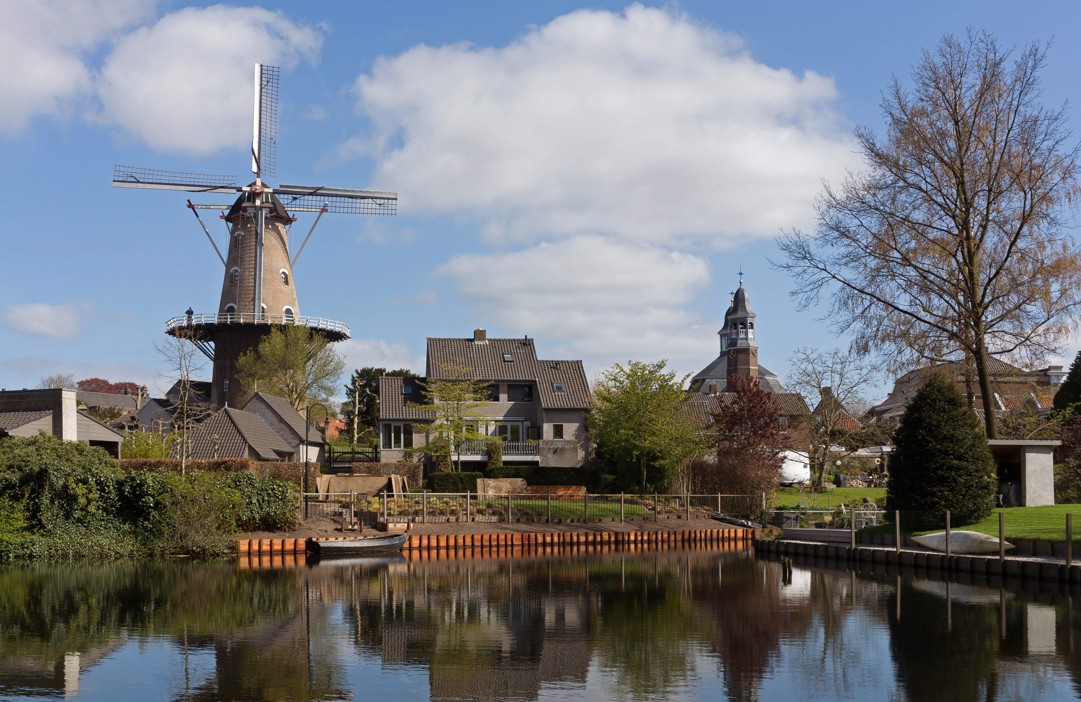 Ravenstein, windmill: windmolen de Nijverheid